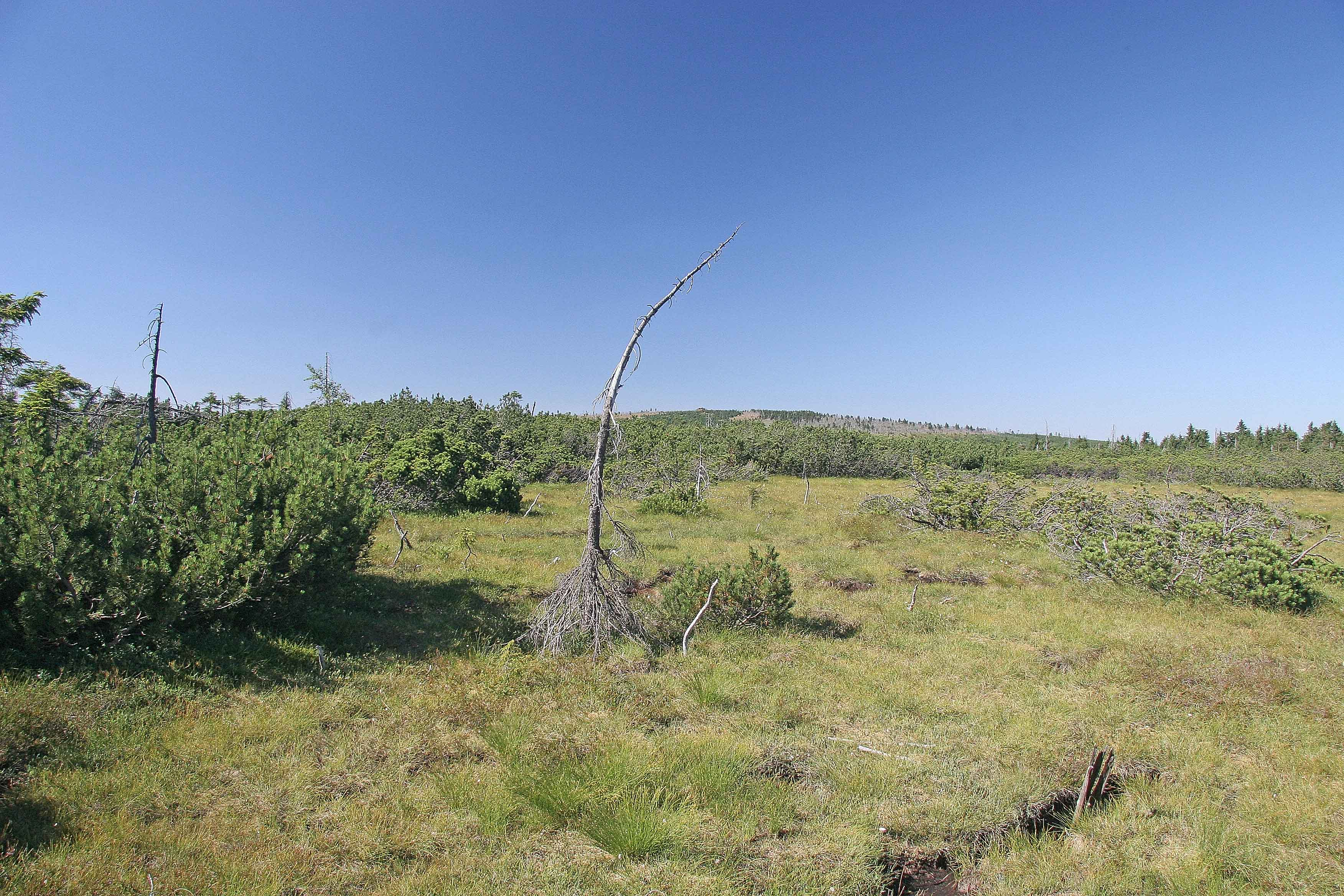 Natural reserves Klečové louky - Velká Klečová louka, Jizera Mountains, district Liberec, Czech Republic